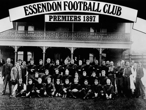 The Essendon FC that won its first premier in 1897.